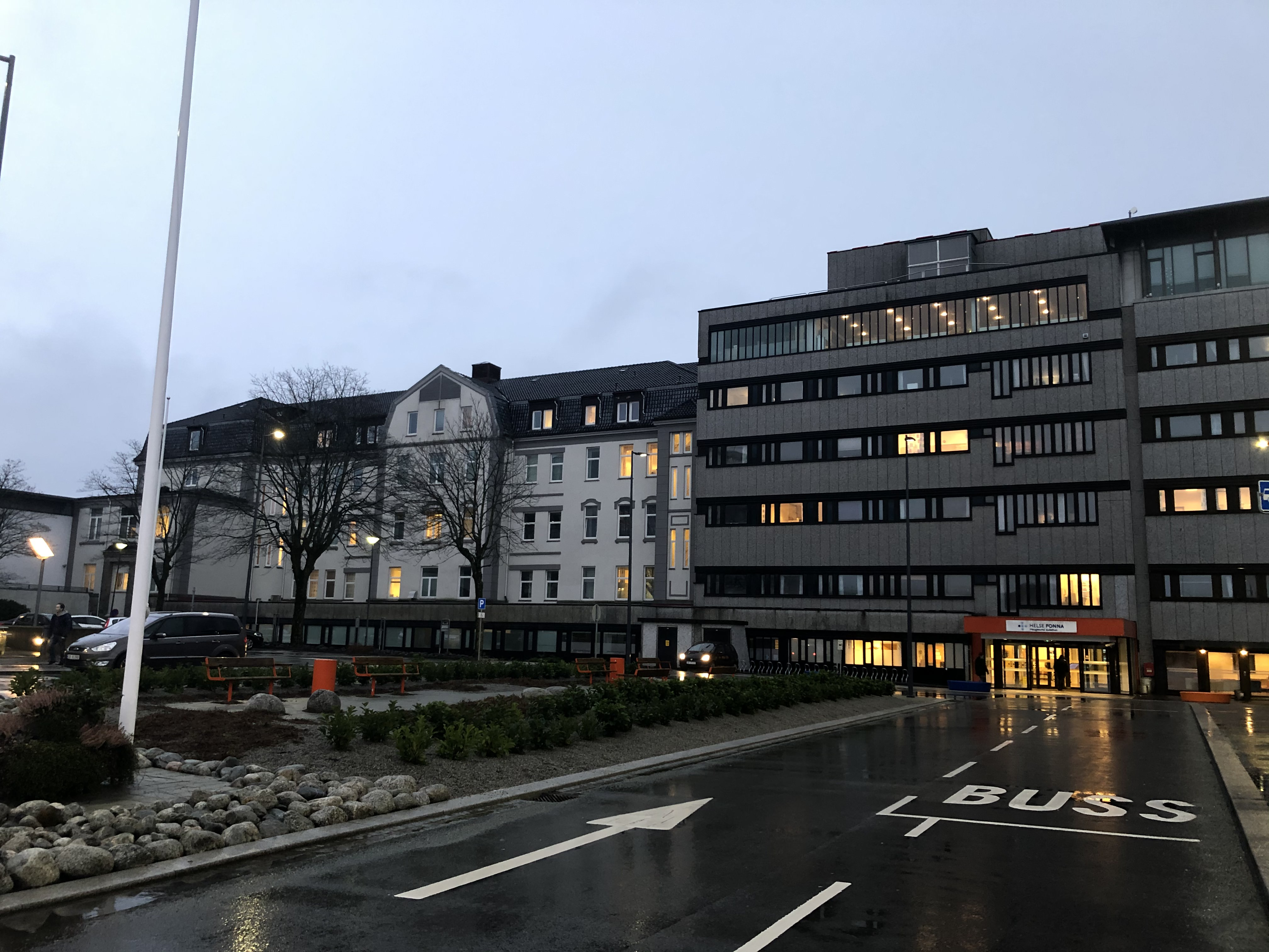 Haugesund Hospital from the north.